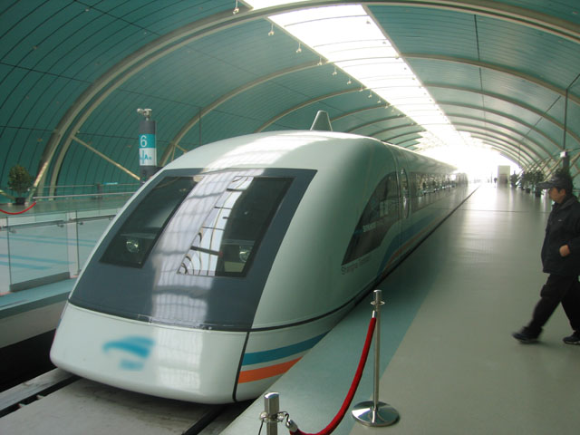 Shanghai Transrapid Photo by Yosemite